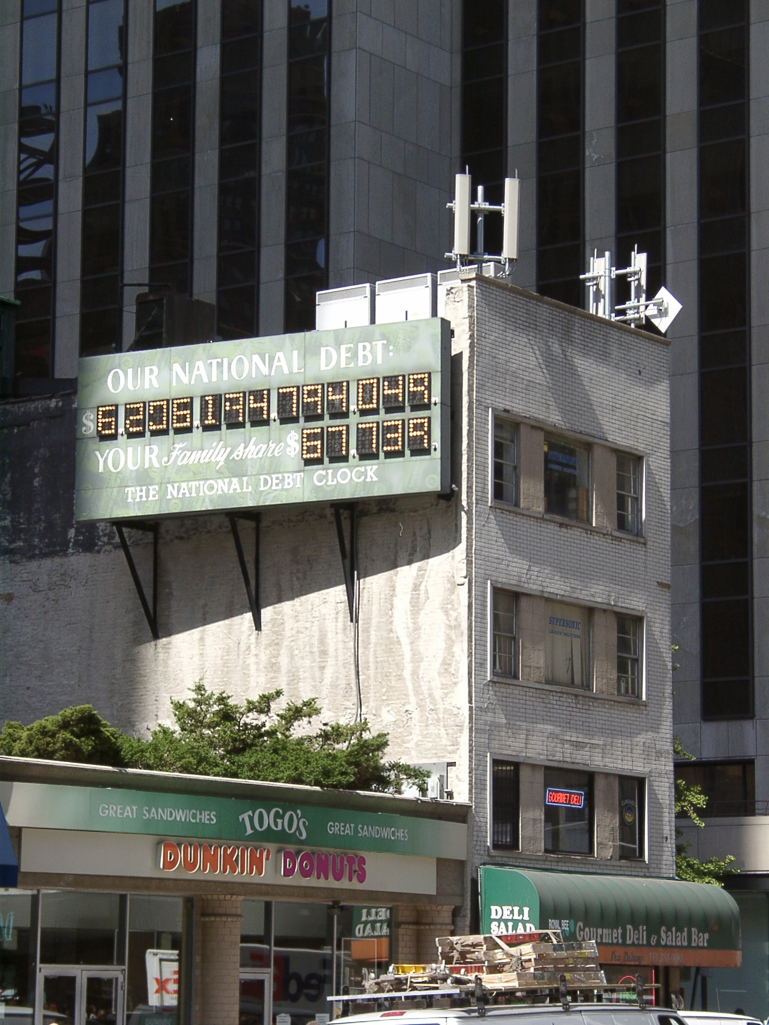 The National Debt Clock at it's first New York City location in 2002.